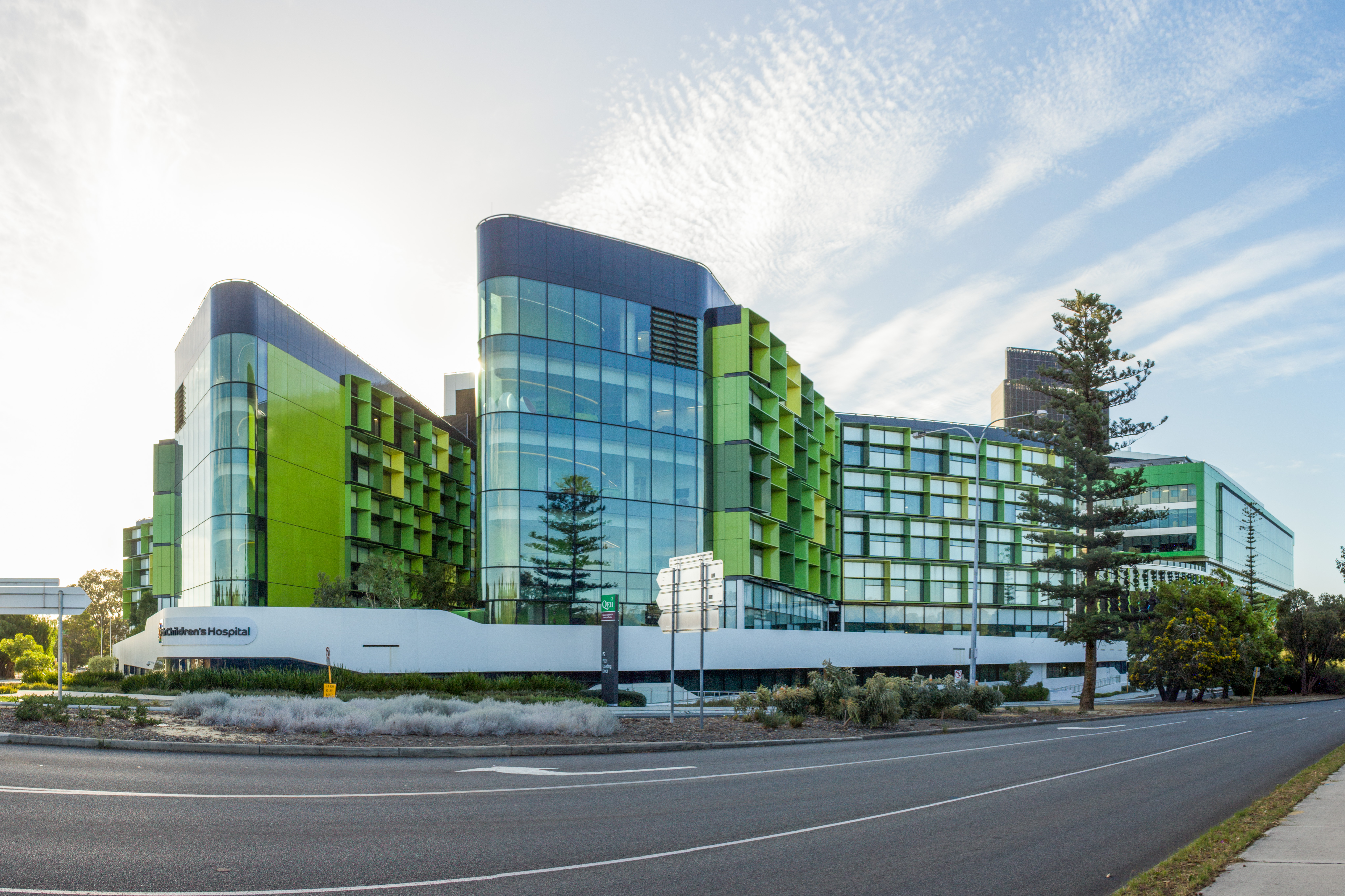 Perth Children's Hospital in March 2018, before its opening. Photographed from the corner of Winthrop Ave and Monash Ave.